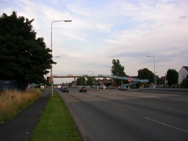 East Lancashire Road. A footbridge over this busy road, the A580, at Wardley. Taken from SD76430143.